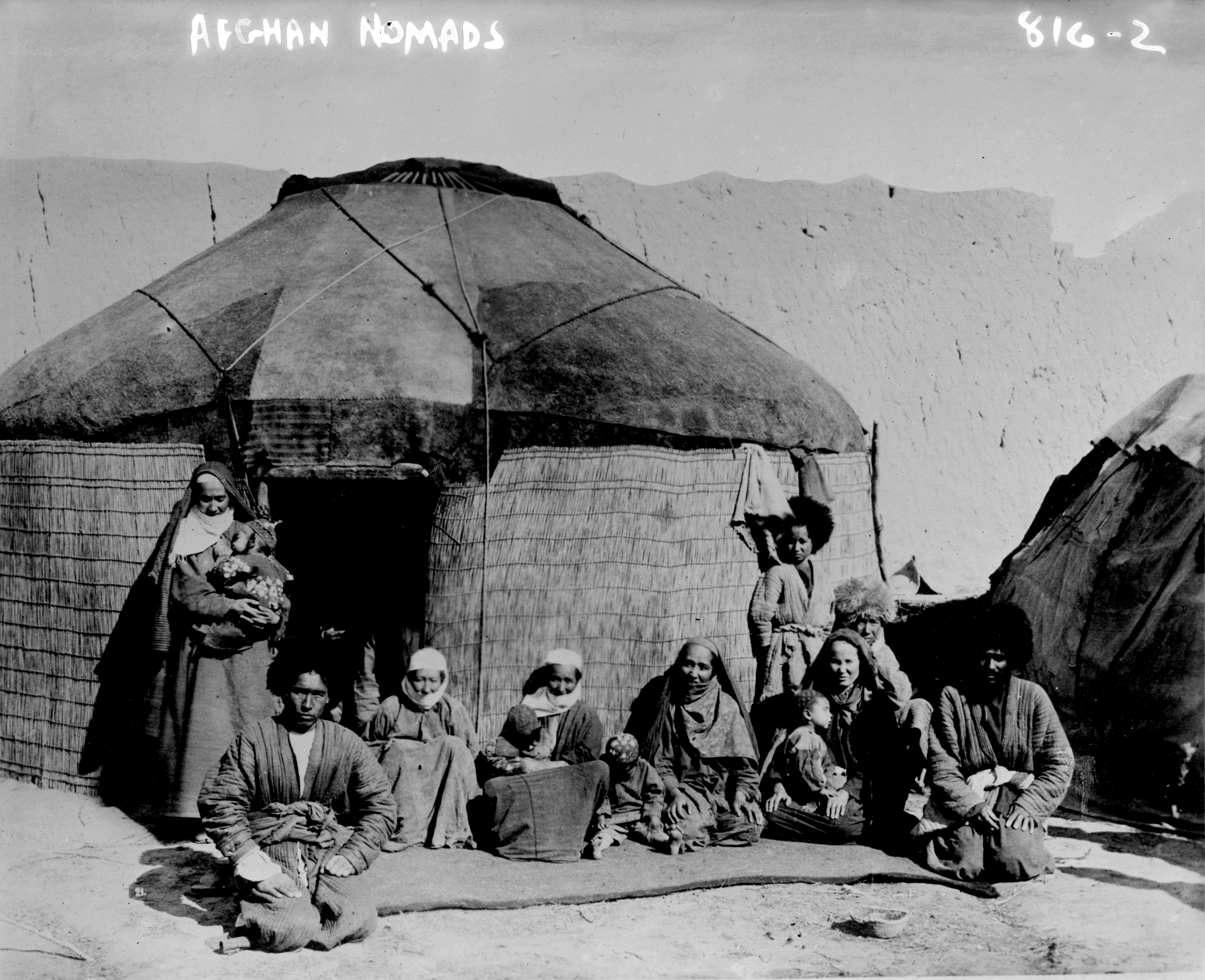 Afghan nomads, seated outside tent.